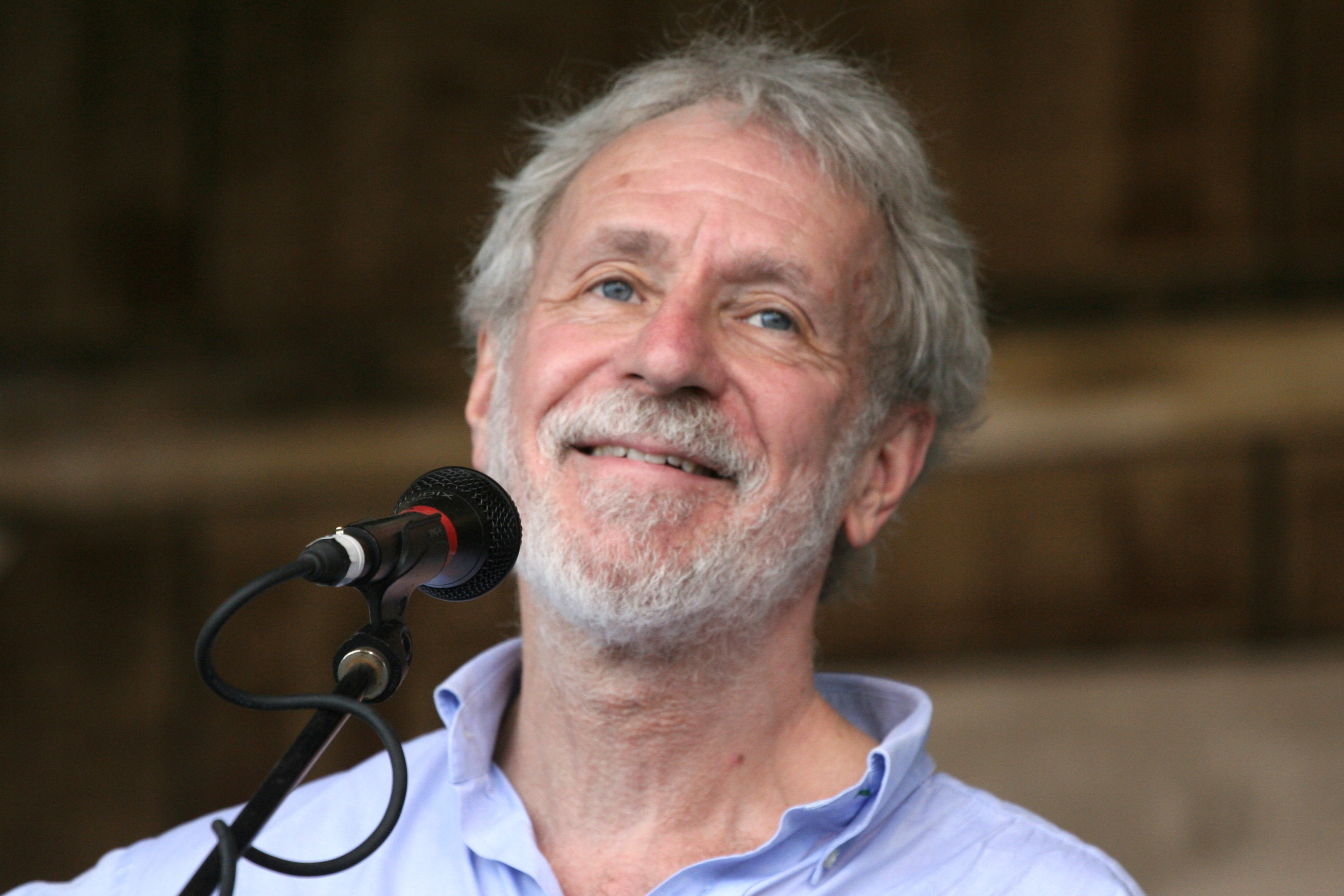 Jesse Winchester New Orleans Jazz Fest Fais Do Do Stage Saturday, May 7, 2011